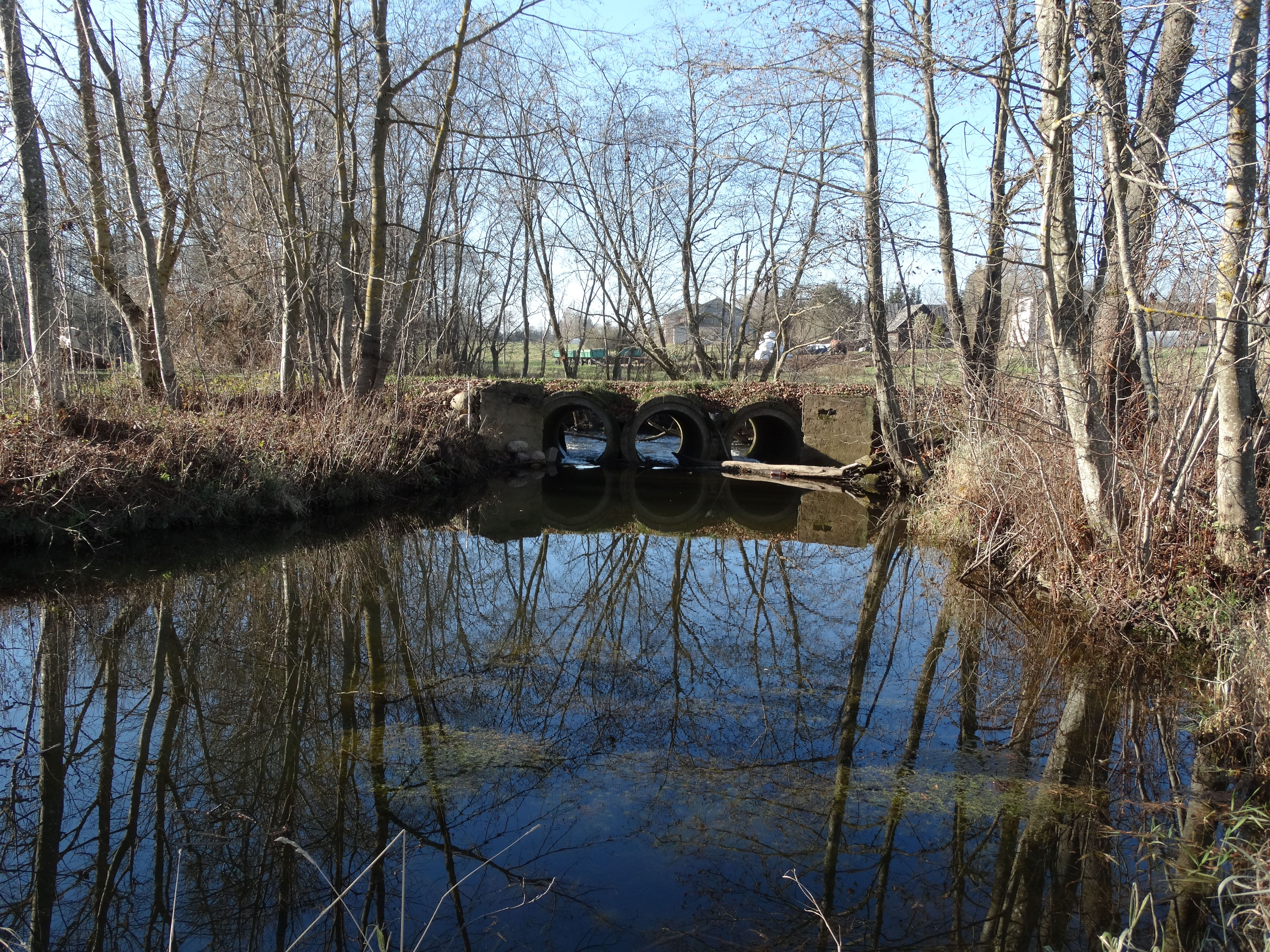 Marnaka River in Tiltagaliai, Panevėžys district, Lithuania